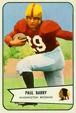 American football player Paul Barry (American football) on a 1954 Bowman card.